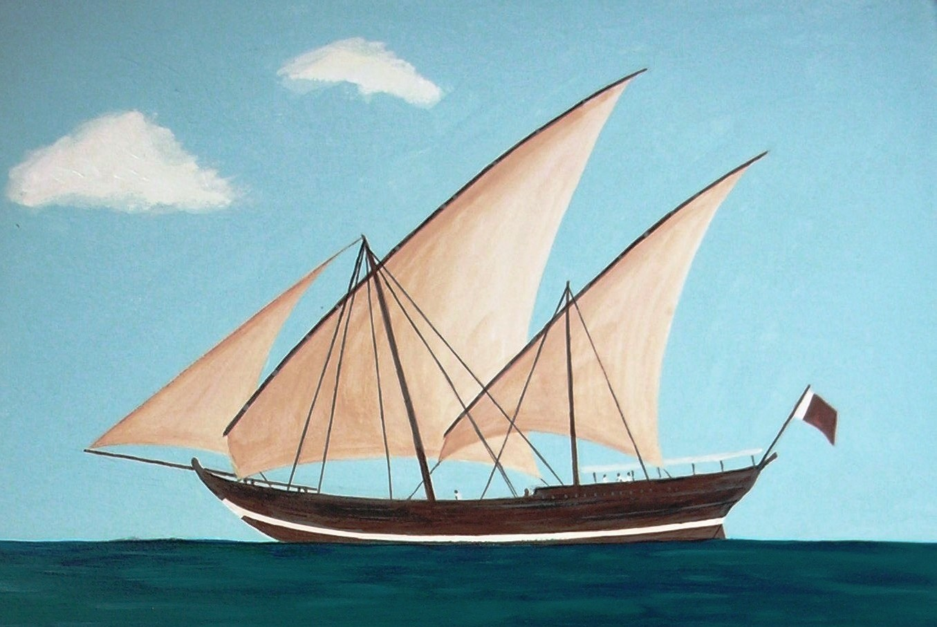 Painting of a Maldivian baggala. Acrylic on canvas.